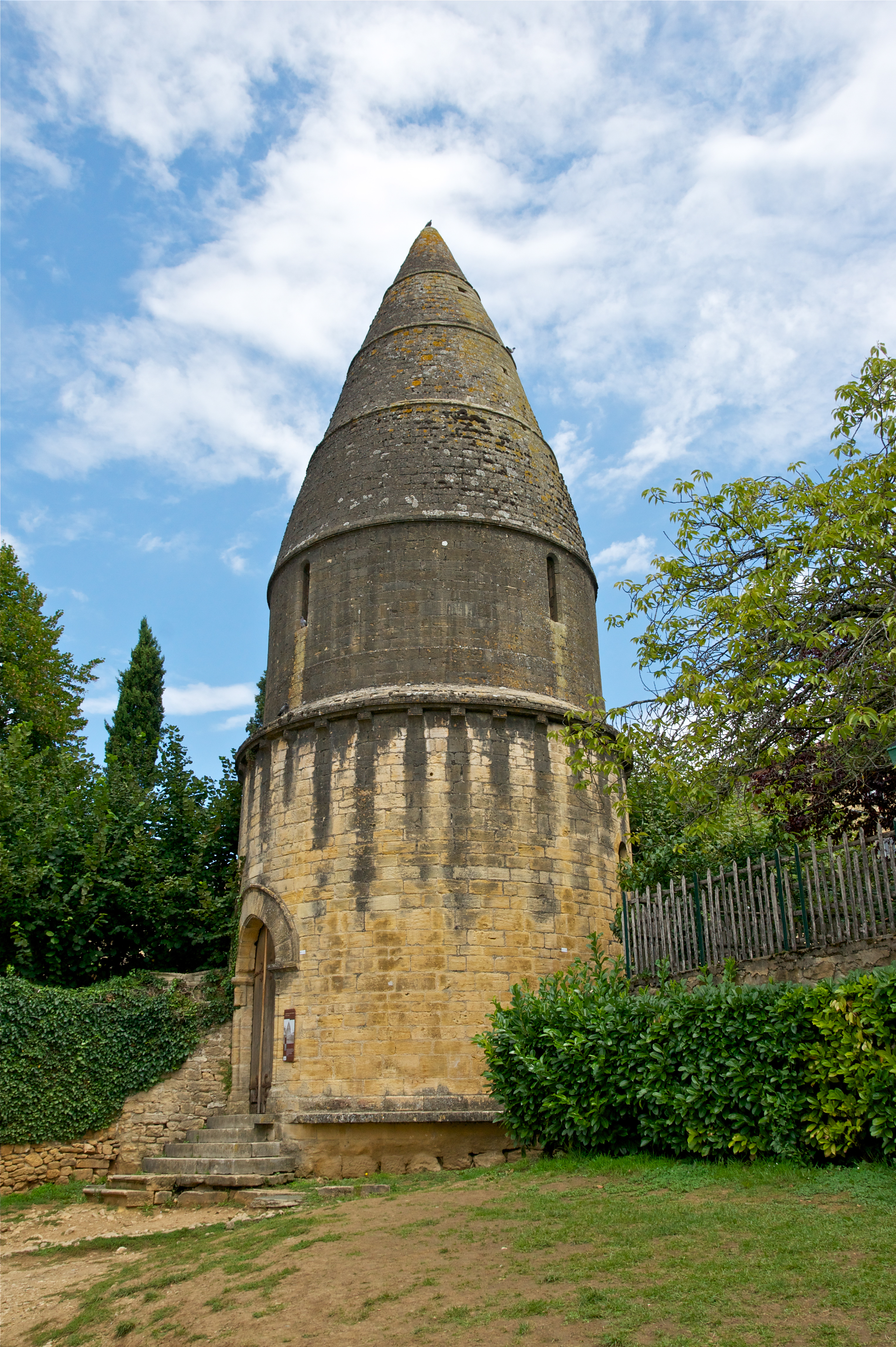 The Lantern of the Dead in Sarlat-la-Canéda, Dordogne, France.